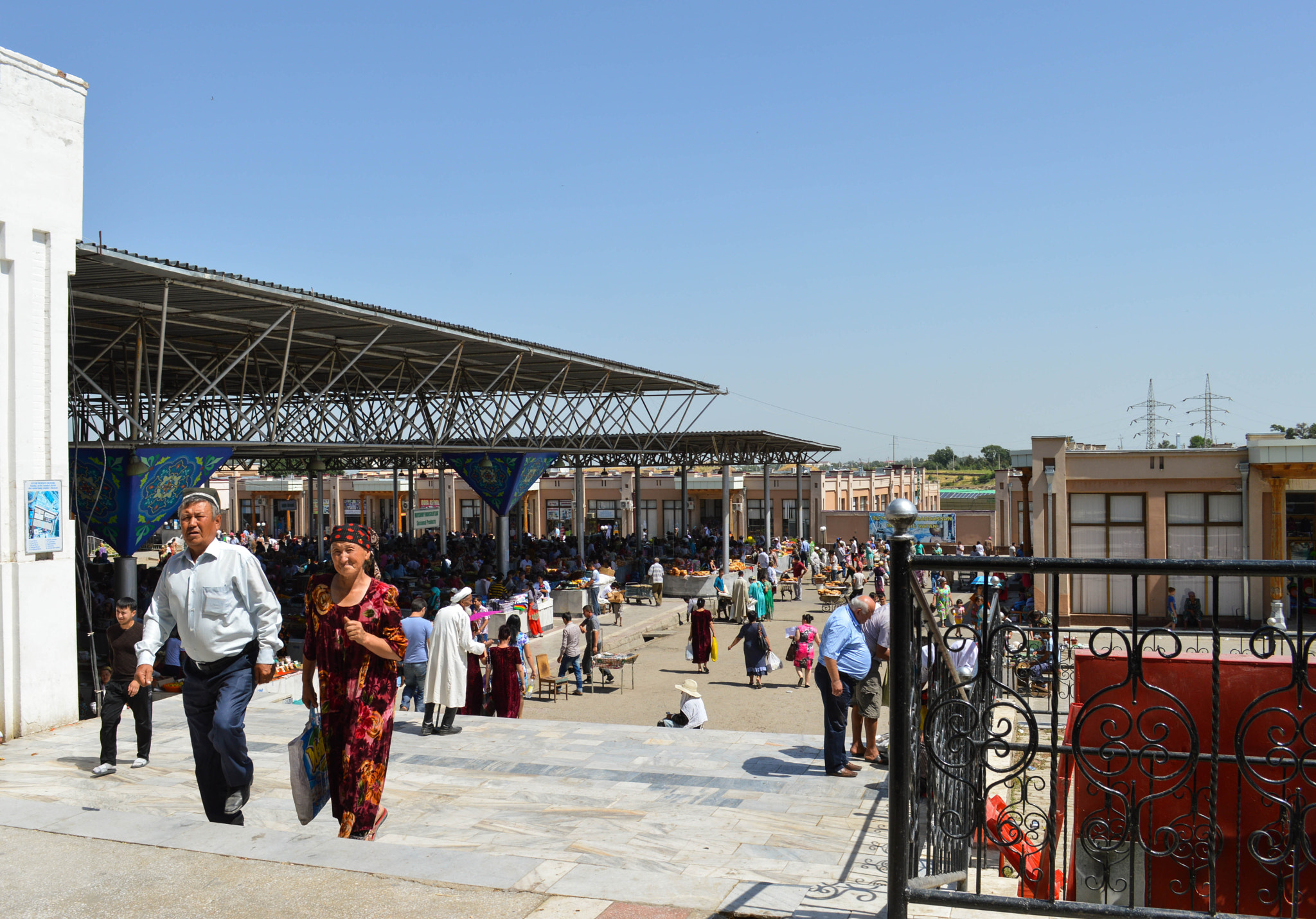 500px provided description: Couple In The Samarkand Market [#city ,#downtown ,#taxi ,#cn tower ,#highrise ,#times square ,#metropolitan ,#citylife ,#kowloon ,#new yorker ,#midtown ,#cntower ,#dundas square ,#downtown toronto ,#toronto skyline ,#down town ,#34th street ,#mongkok ,#food truck ,#streetsoftoronto]